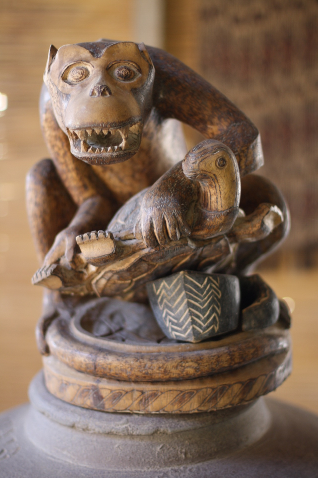 Historic item by the T'Boli tribe, from the display of the T'Boli museum, Lake Sebu, South Cotabato